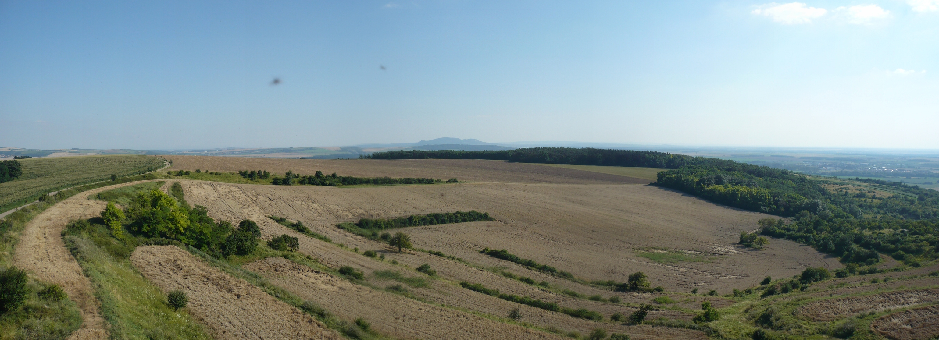 observation tower Akatova vez - panorama view, near Zidlochovice, Czech Republic